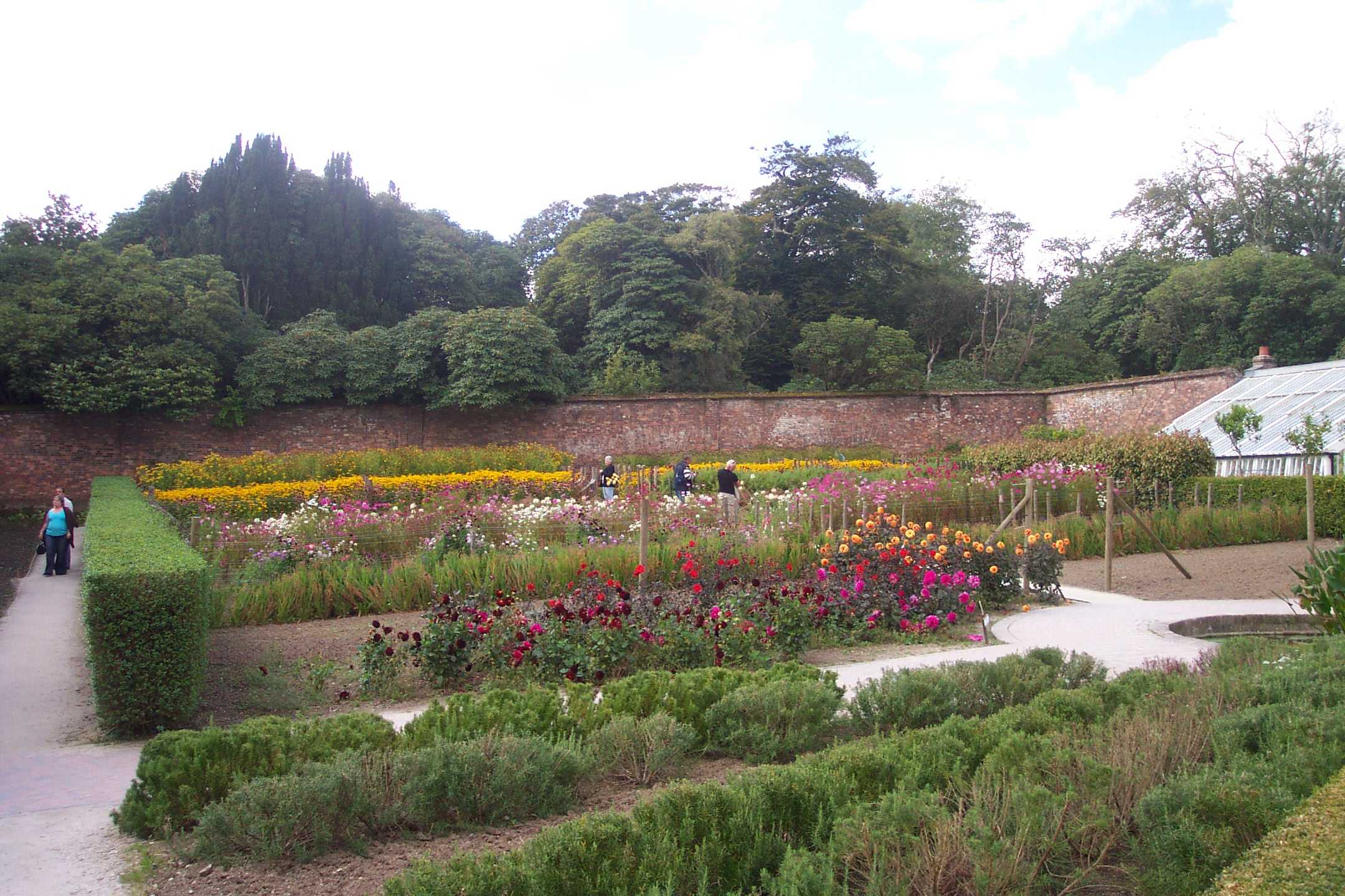 The Flower Garden at the Lost Gardens of Heligan. For more information see the Wikipedia article Lost Gardens of Heligan.